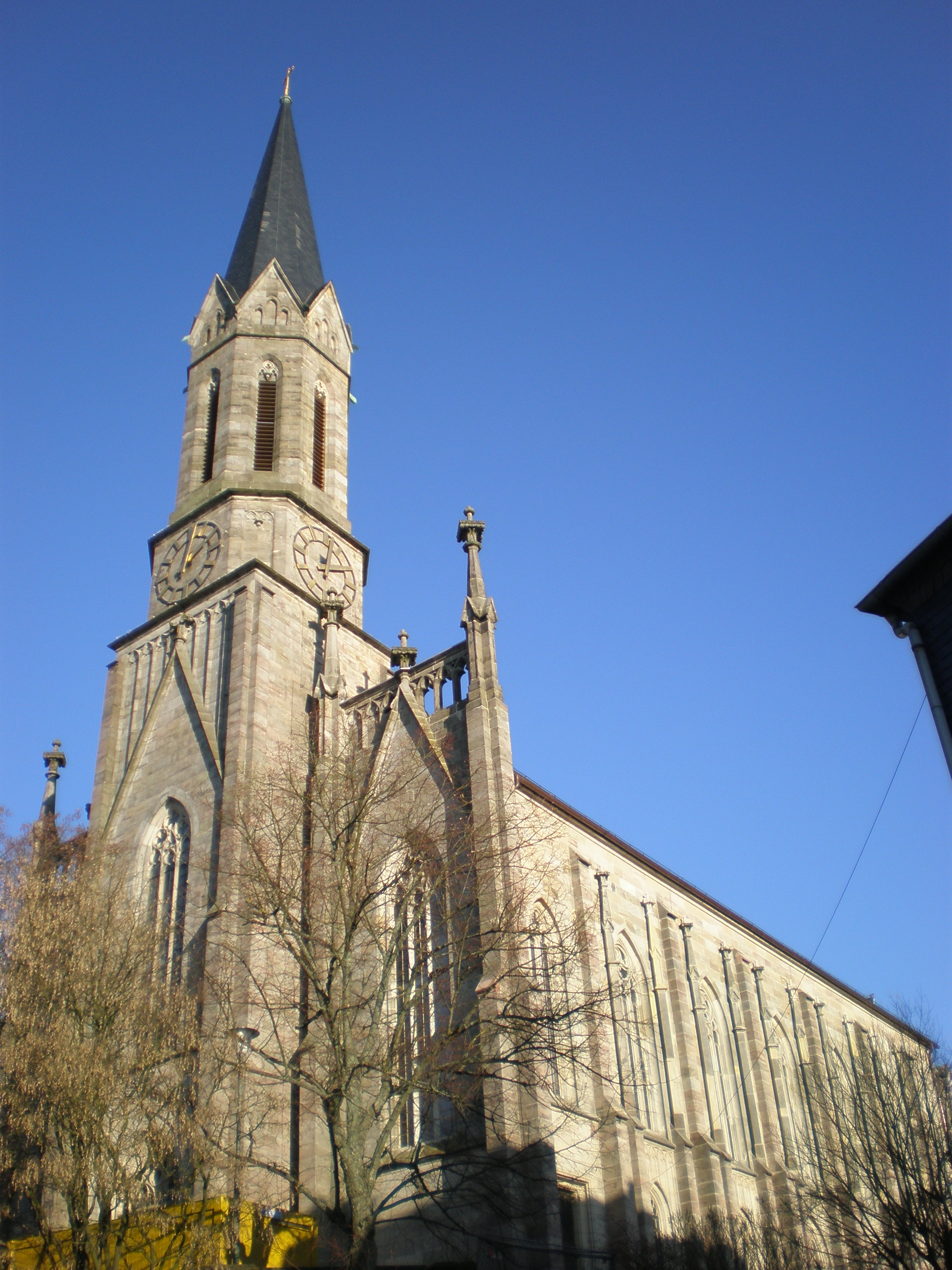 The City church Peter and Paul in Münchberg.